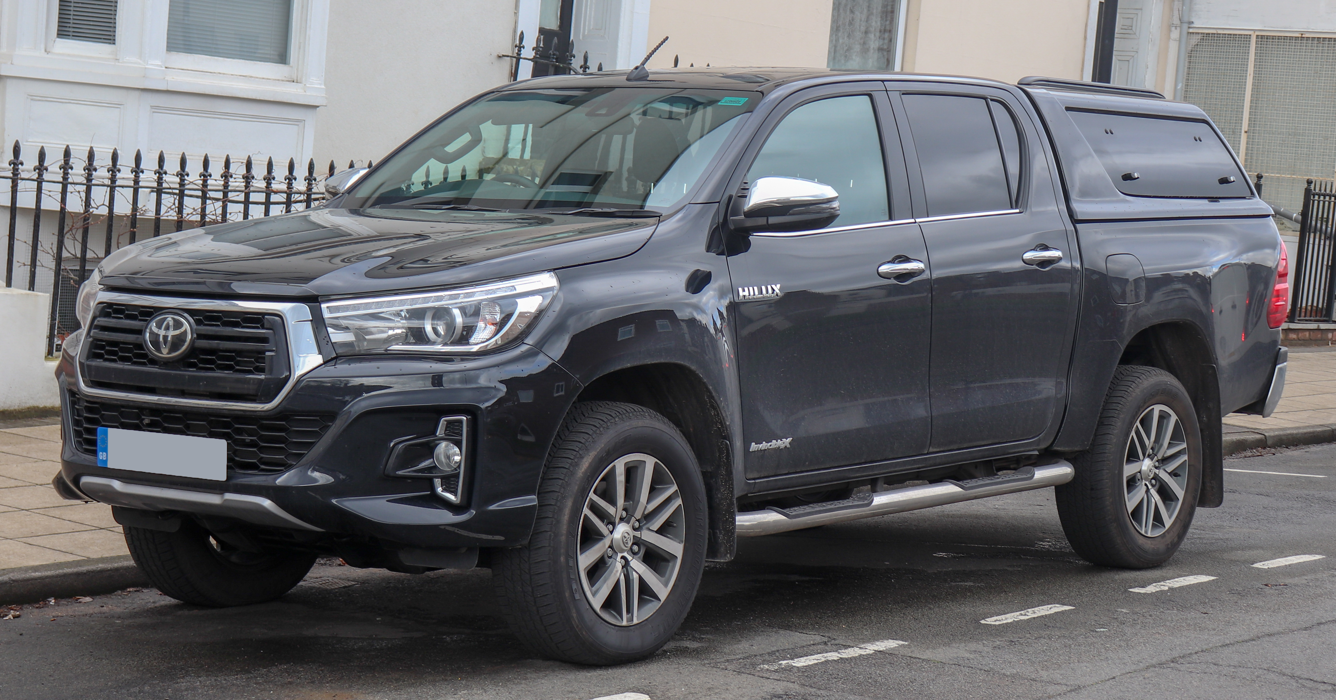 2018 Toyota Hilux Invincible X D-4d 4WD 2.4 Front Taken in Leamington Spa